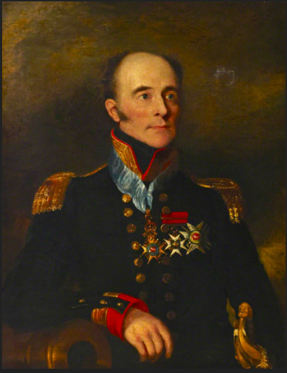 Captain Sir Thomas Ussher (1779–1848)